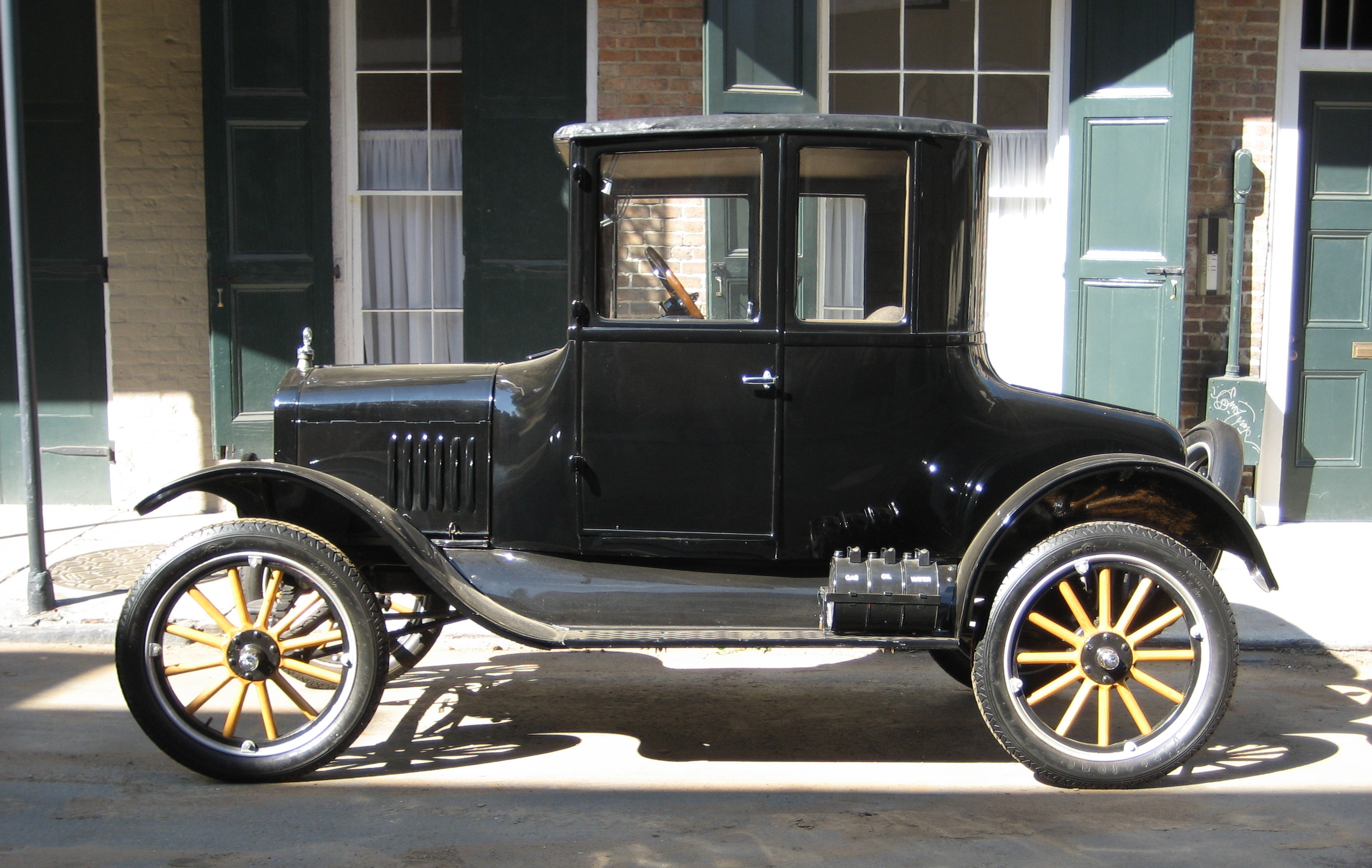 Old Model T Ford on Bourbon Street, New Orleans.